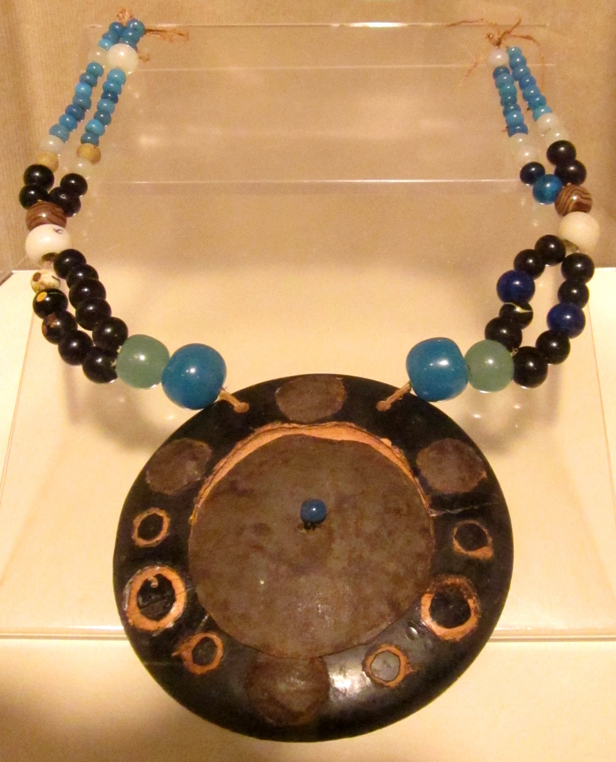 Ainu necklace, early 20th century, metal and fiber, Shiraoi, Hokkaido, Biship Museum